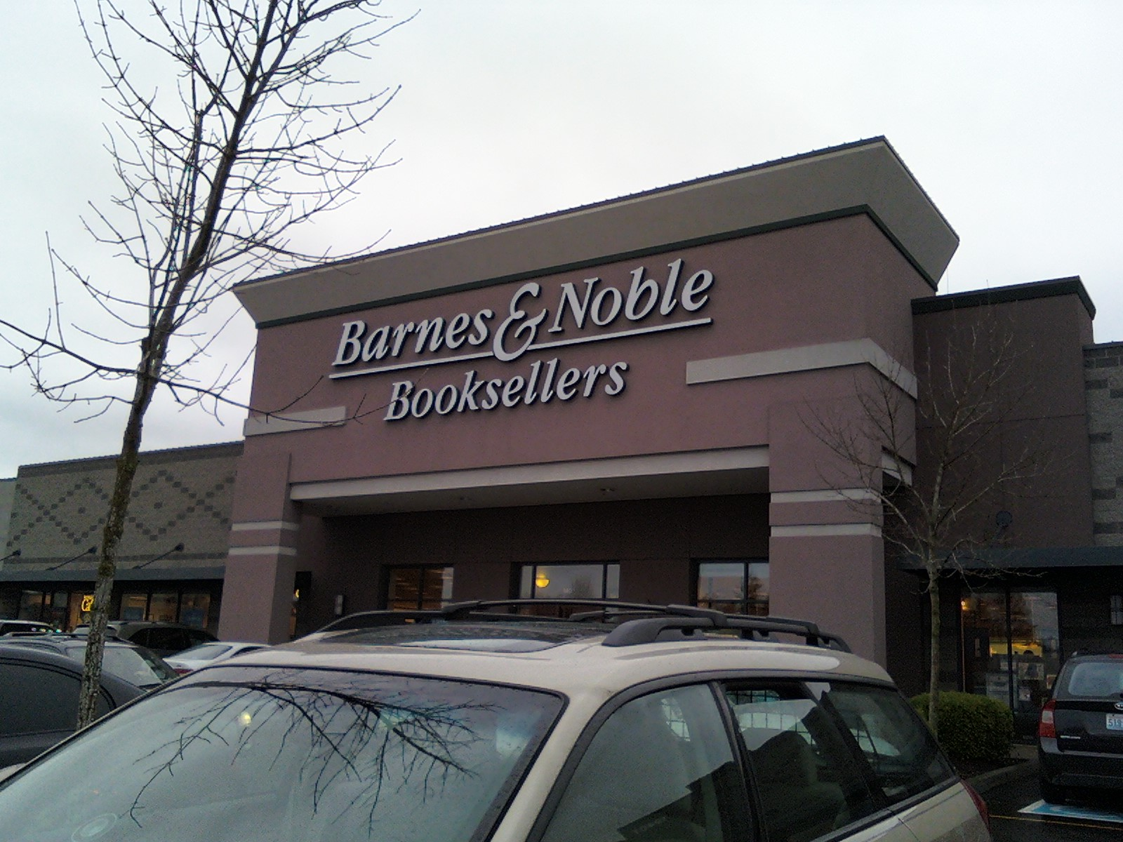 Barnes & Noble book store in Lynnwood, Washington, USA.